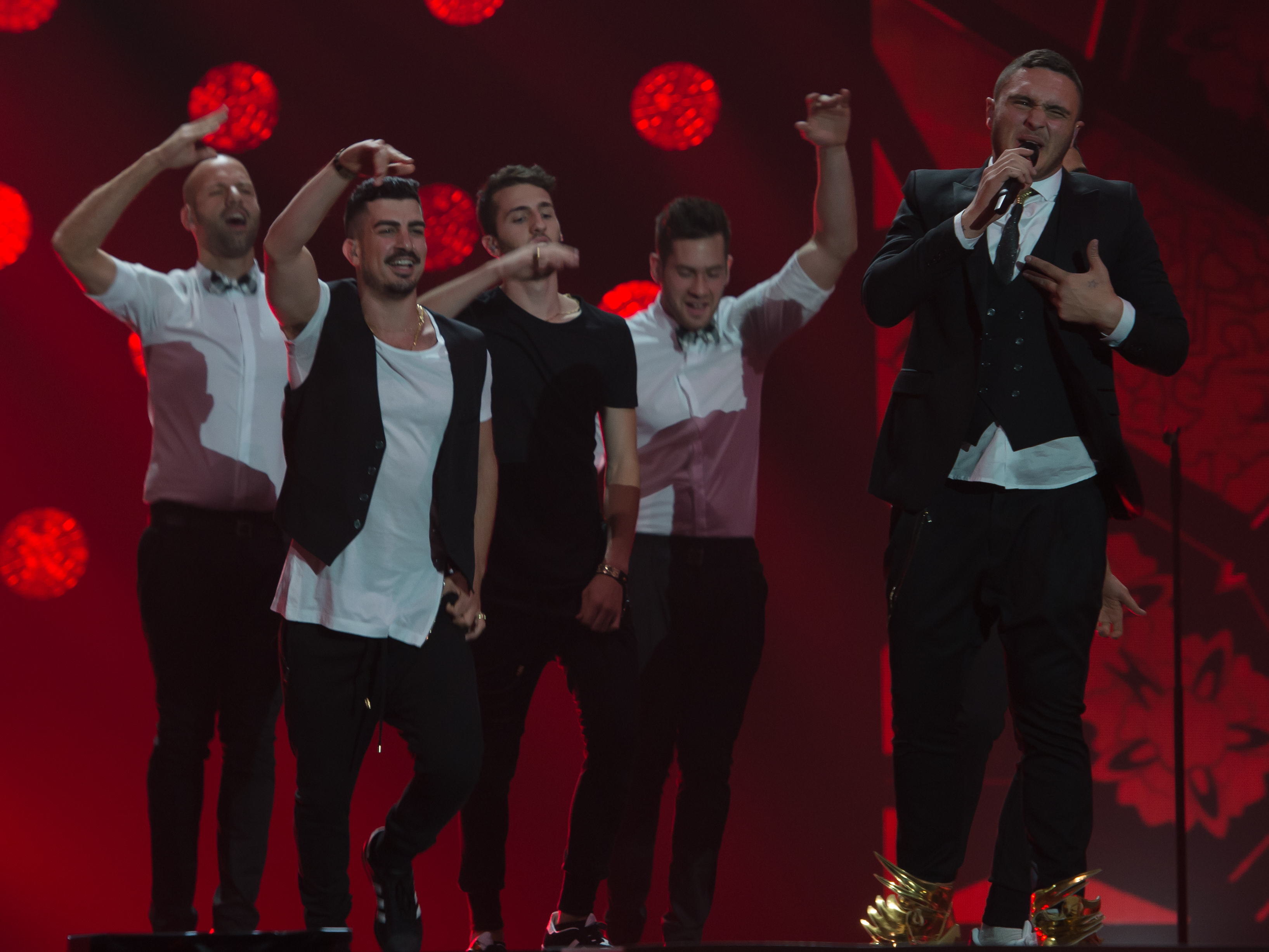 Eurovision Song Contest Vienna 2015: Nadav Guedj; Imri Ziv is the first one from the right behind him